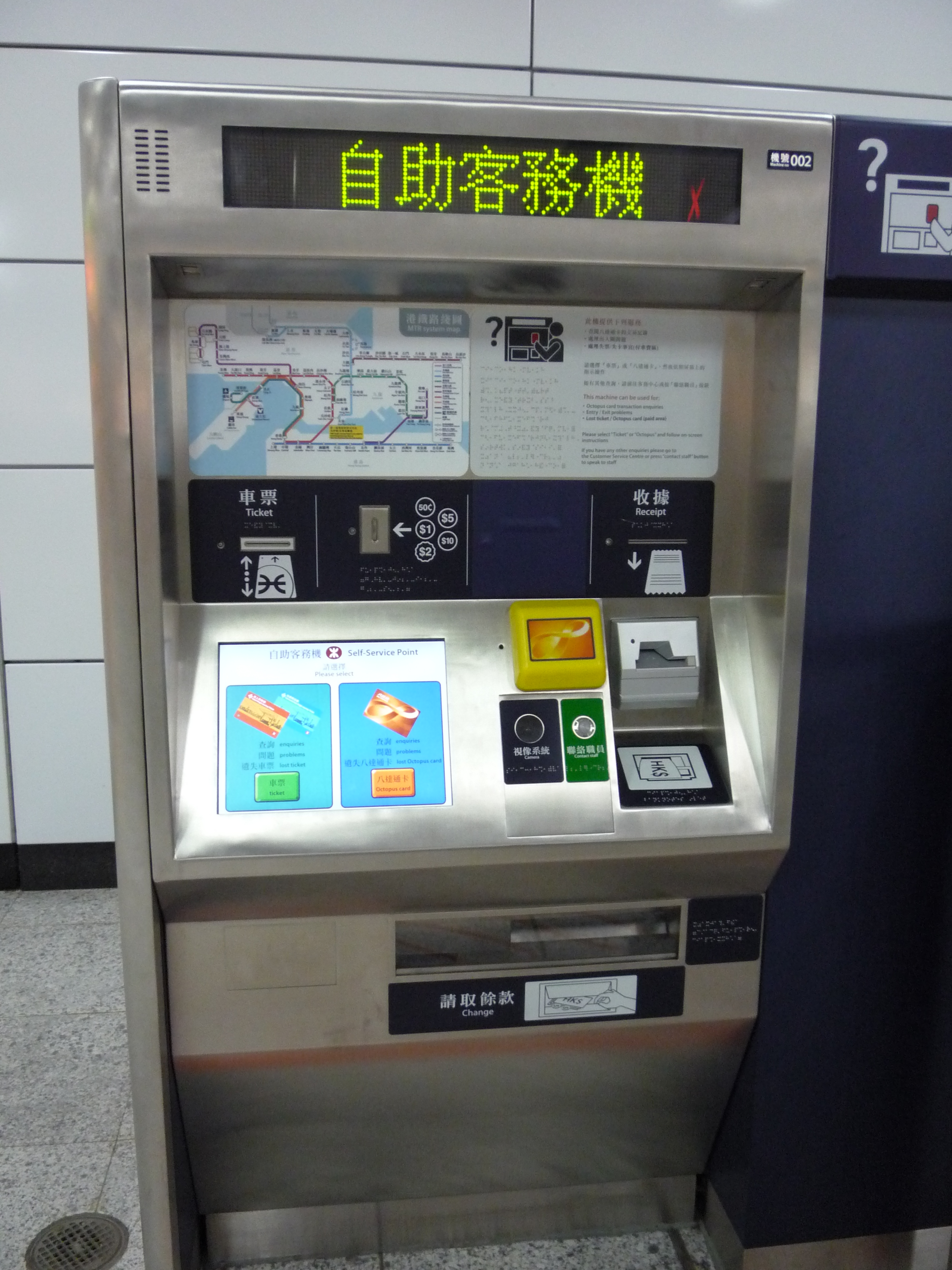 A Self-Service Point in MTR Hong Kong Station